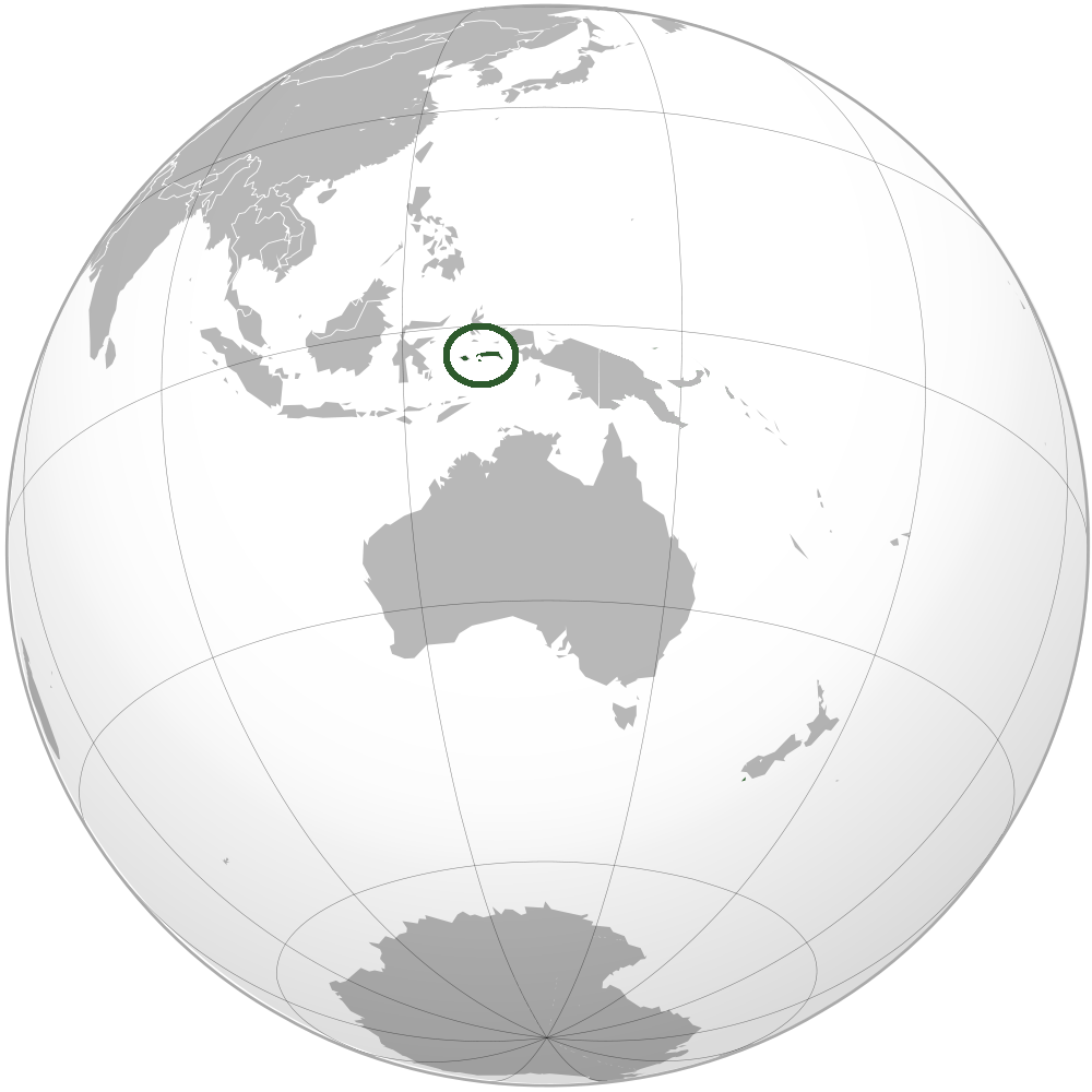 Green: Territory claimed by the Republic of South Moluccas